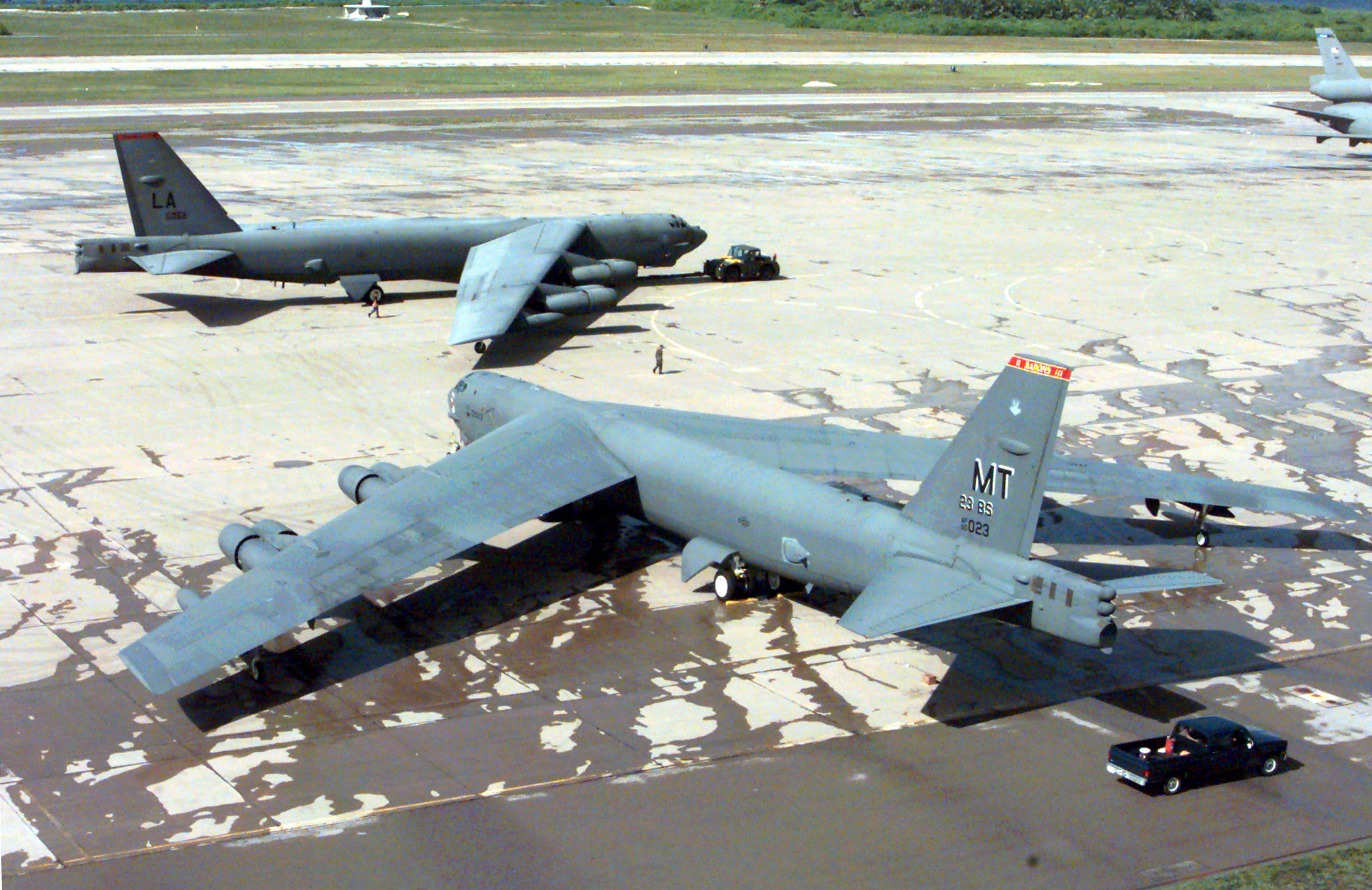 One U.S. Air Force B-52H Stratofortress is towed past another on the flight line at Navy Support Facility Diego Garcia, British Indian Ocean Territory, on Jan. 25, 1999. The Stratofortresses are operating from Diego Garcia in support of Operation Southern Watch, which is the U.S. and coalition enforcement of the no-fly-zone over Southern Iraq. The aircraft are part of the 2nd Air Expeditionary Group which is made up of aircraft deployed from Barksdale Air Force Base, La., Minot Air Force Base, N.D., and Travis Air Force Base, Calif.